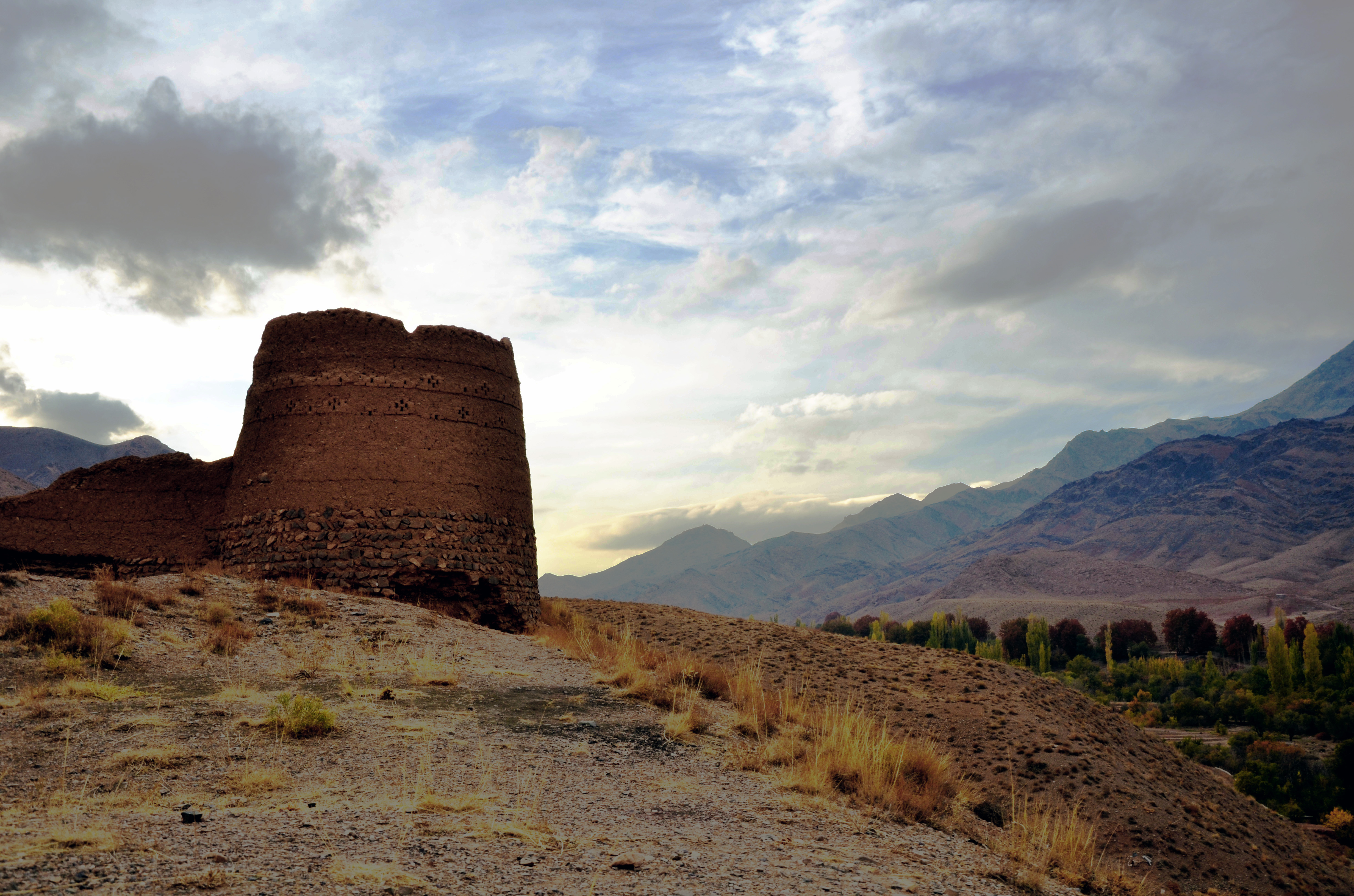 Abiyaneh Old castle, Iran Abyaneh is a famous historic Iranian village near the city of Natanz in Isfahan Province. Characterized by a peculiar reddish hue, the village is one of the oldest in Iran, attracting numerous native and foreign tourists year-round, especially during traditional feasts and ceremonies. An Abyunaki woman typically wears a white long scarf (covering the shoulders and upper trunk) which has a colourful pattern and an under-knee skirt. Abyunaki people have persistently maintained this traditional costume despite pressures from time to time by the government trying to change it. Abyaneh also resisted conversion to Islam throughout the ages, and stayed Zoroastrian until it was forced to convert to Shi'ite Islam in the time of the Safavid dynasty, as were many other villages and towns that had held onto the Zoroastrian religion until then. On top of the village sits the ruins of a Sasanid era fort. Since June 2005, the village has been undergoing archaeological excavations for the first time ever, as a result of an agreement between Abyaneh Research Center and the Archaeology Research Center of the Iranian Cultural Heritage and Tourism Organization